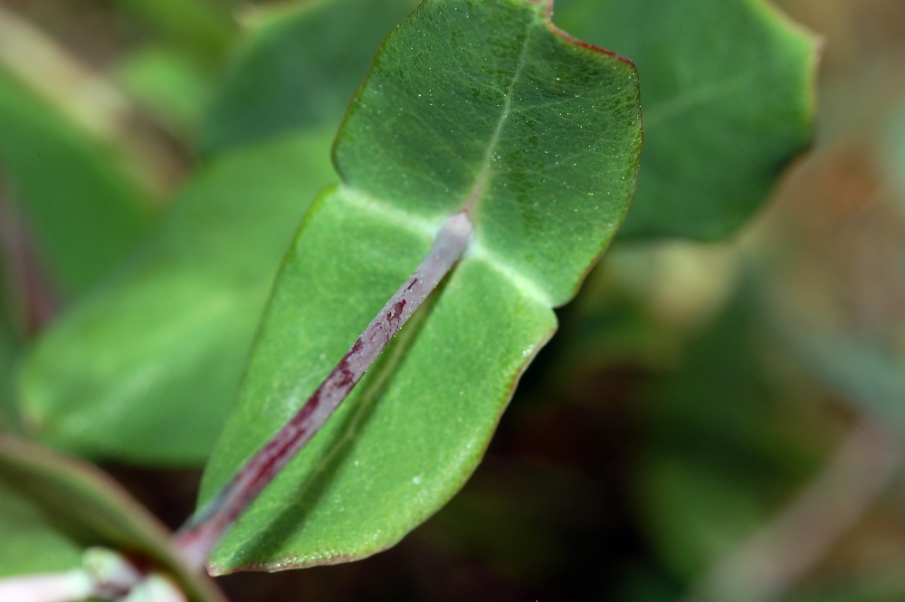 cf. Lonicera implexa, Bedarieux Orb, Languedoc-Roussillon, France